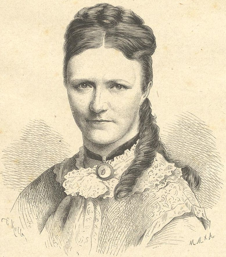 Queen Carola of Wasa 1874